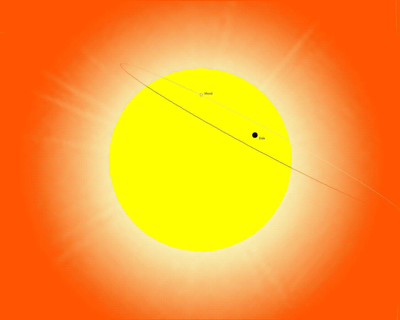 Simulation of an earth transit seen from Mars on Nov 11th, 2084.